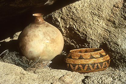 An olla and a basket, a legacy from the Native American people that inhabited the area that is now the Joshua Tree National Park.